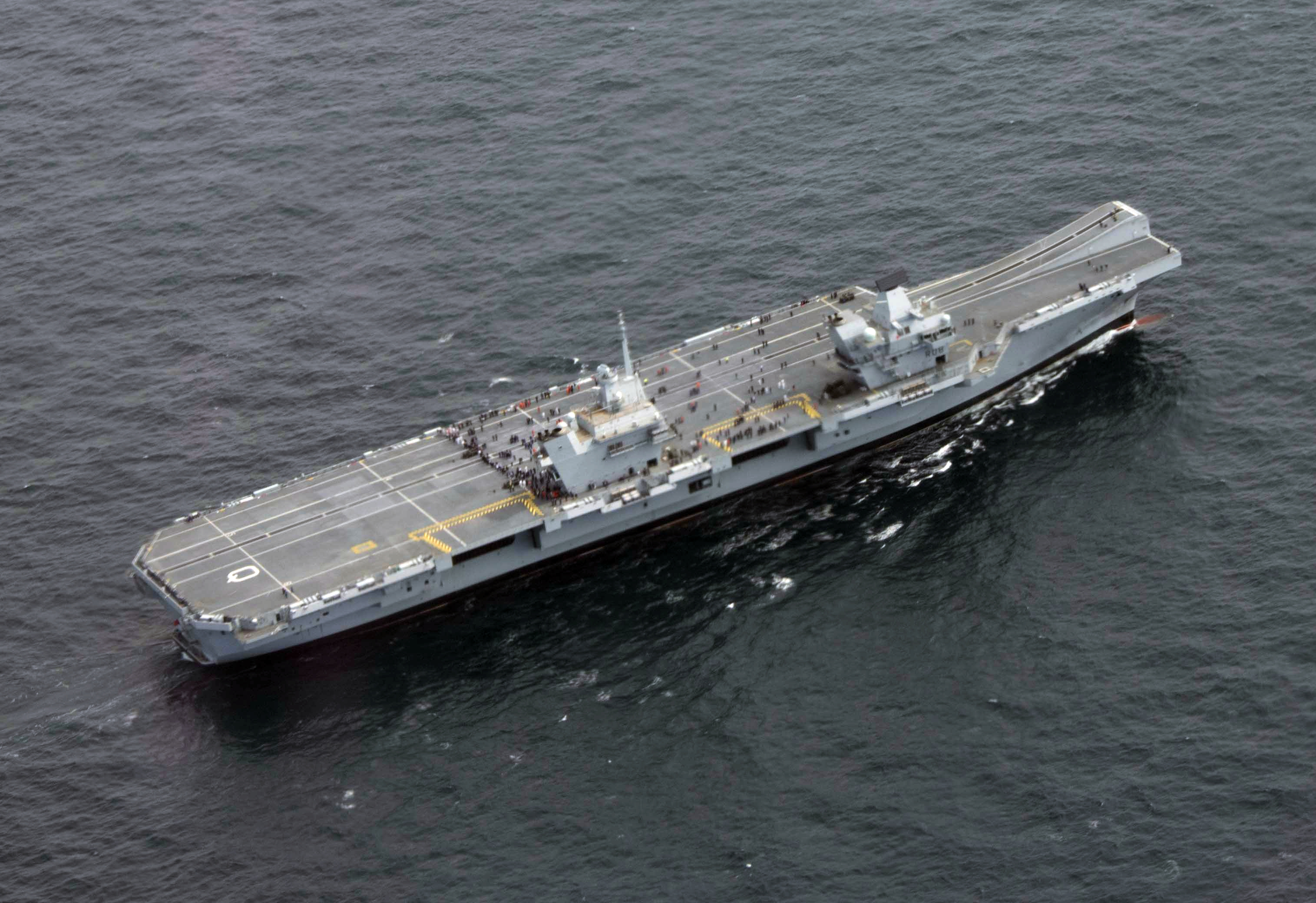 The Royal Navy aircraft carrier HMS Queen Elizabeth (R08) underway during exercise "Saxon Warrior 2017" on 5 August 2017.